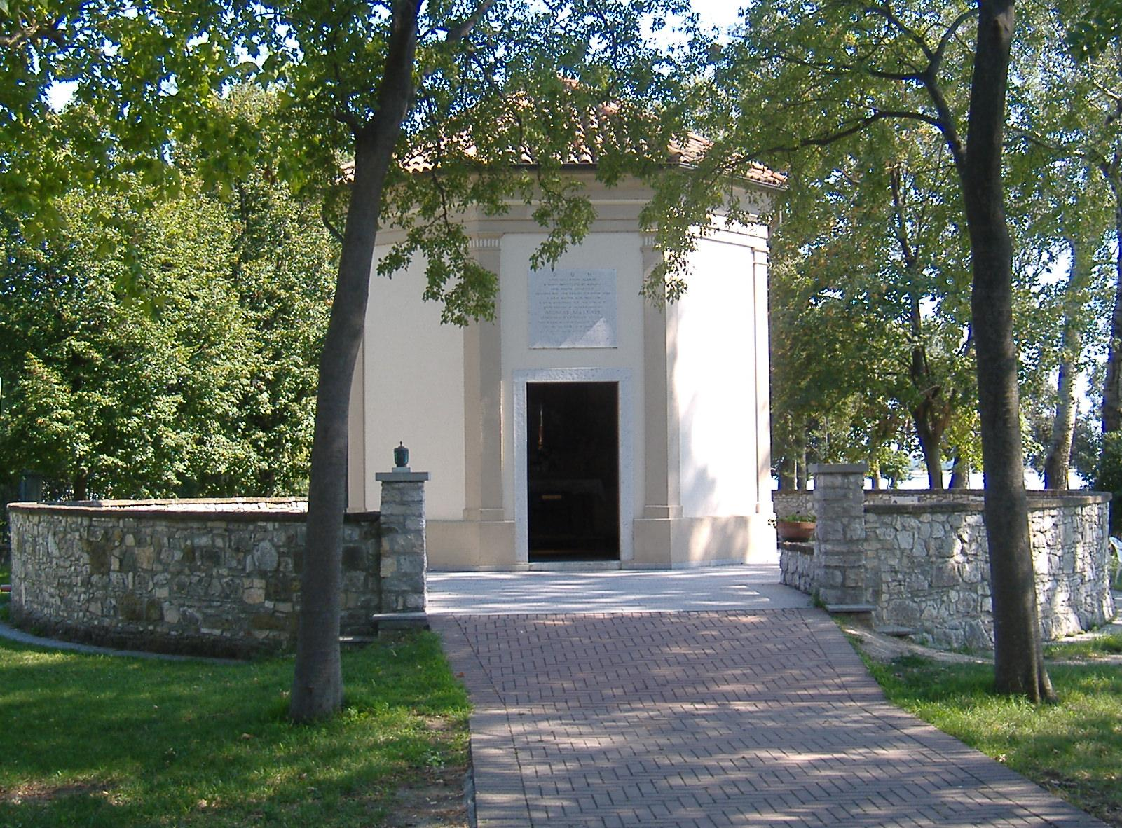 Barbana island: the chapel in the wood. Grado, Italy.